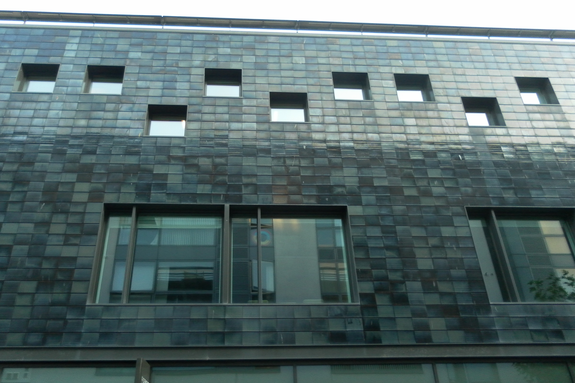 Detail of the imitation mathematical tiles and irregular fenestration on the west elevation of Jubilee Library, Jubilee Street, Brighton, City of Brighton and Hove, England.